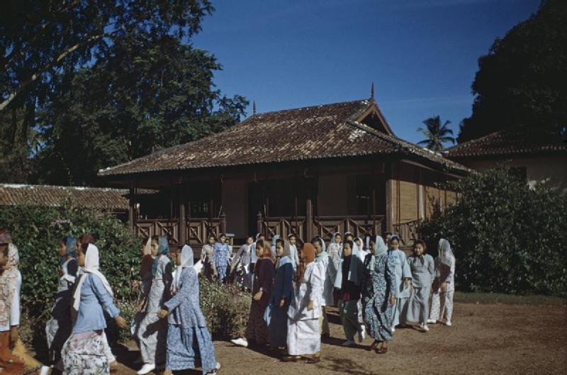 The Malay Women's College in Malacca, Malaya (circa 1950s). Here Malay women, including representatives from each state in the country, are trained to be teachers. The students are seen here walking outside the college.